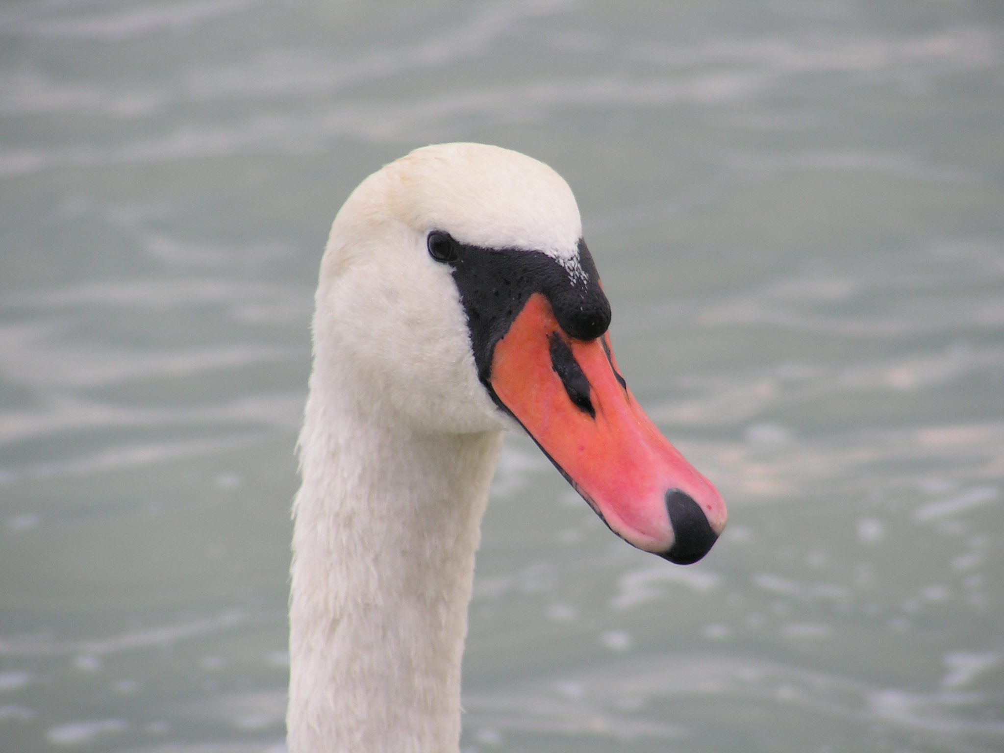 Portrait of a Cygnus olor on the lake Balaton